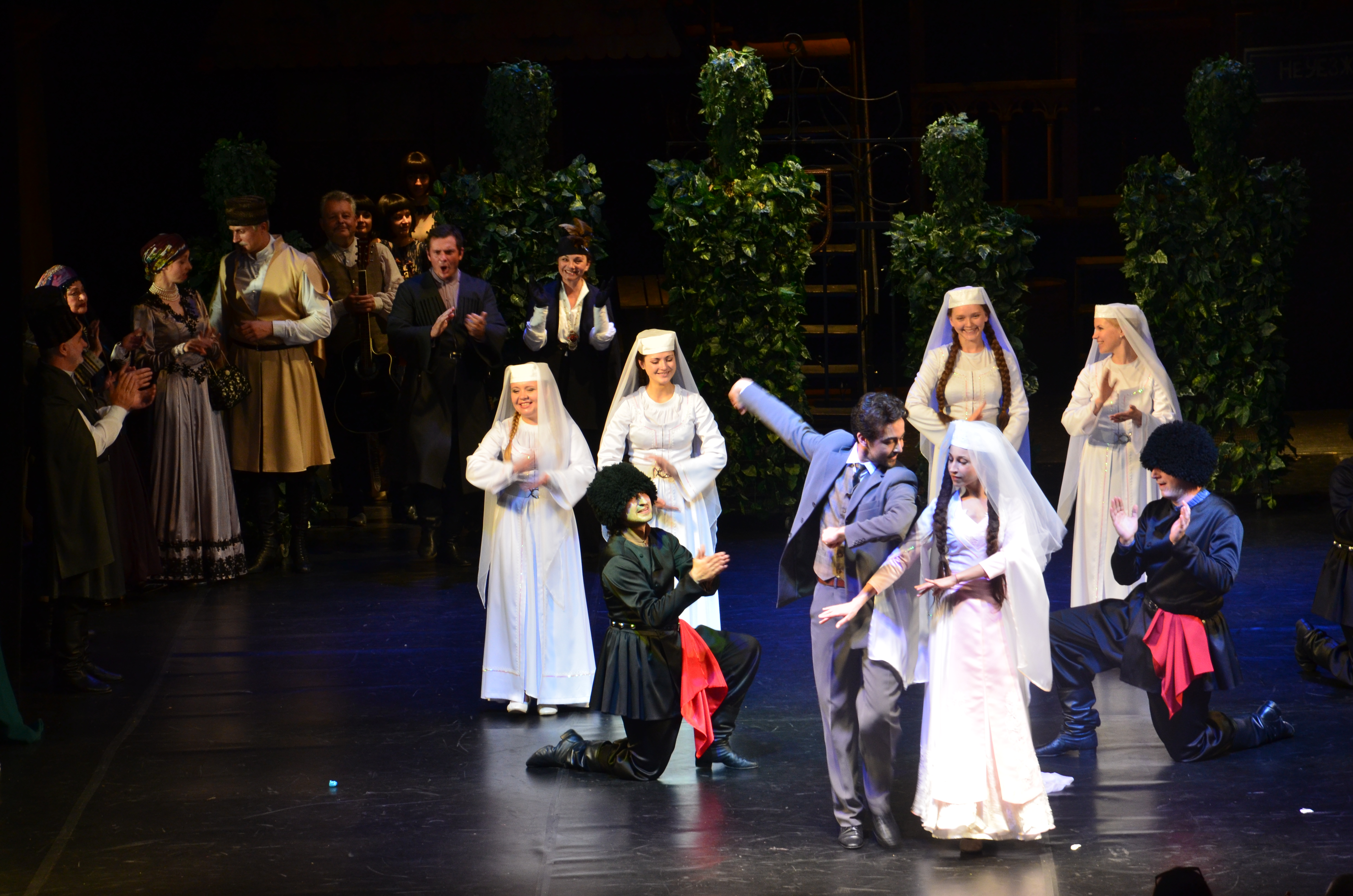 Play "Khanuma" in Maxim Gorky National Academic Drama Theatre in Minsk